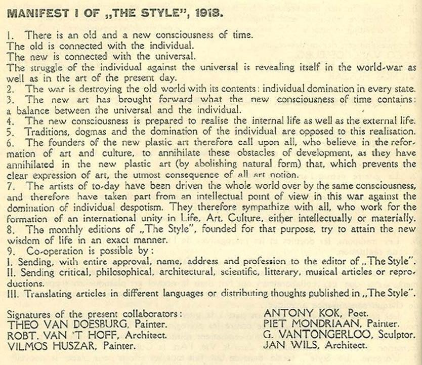 'Manifest I of „The Style” [sic]', from De Stijl, vol. II, nr. 1 (November 1918): p. 4.